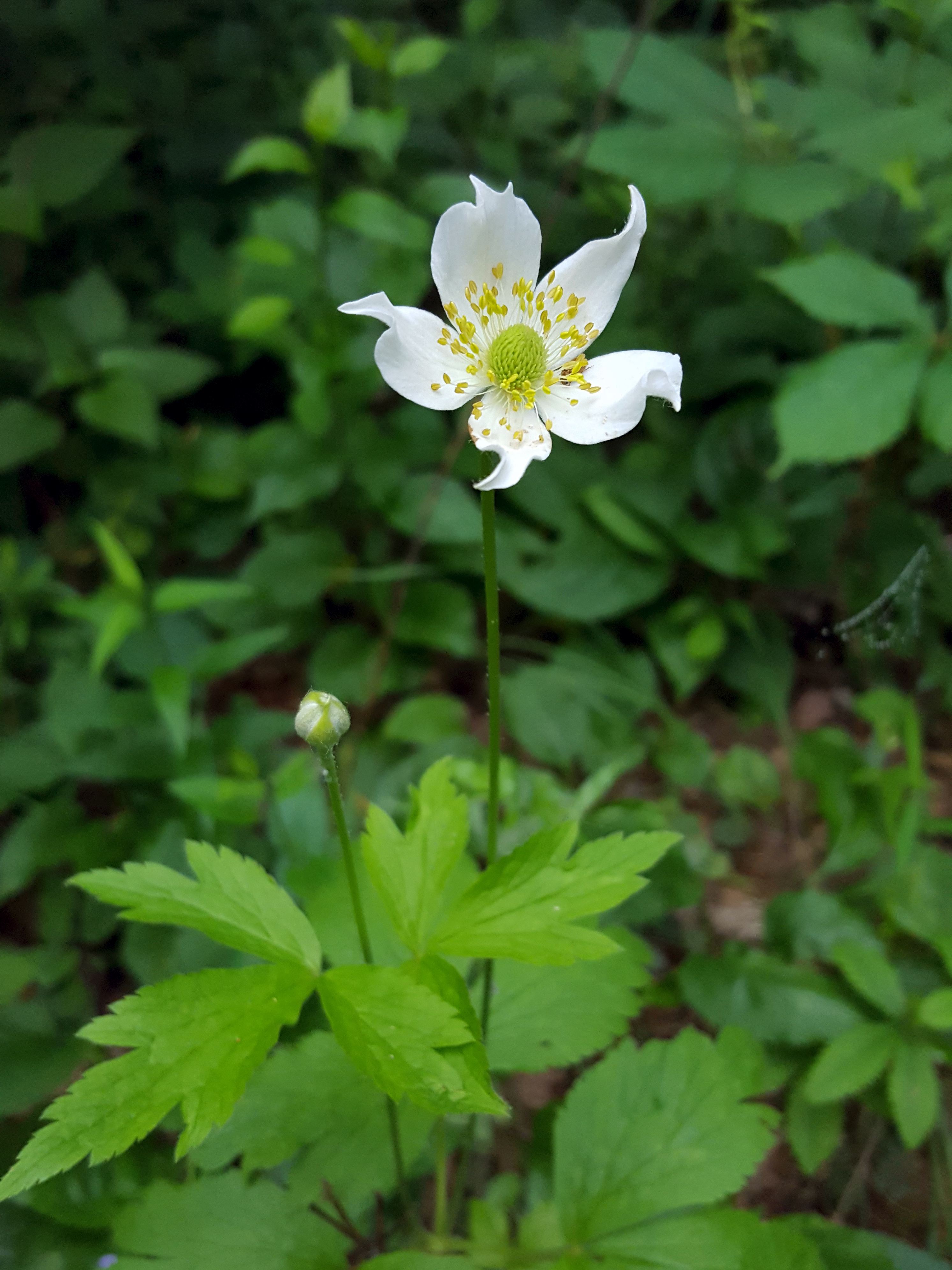 Species from eastern and central North America Common name: Tall thimbleweed Photographed in Mt. Magazine State Park, Logan County, Arkansas